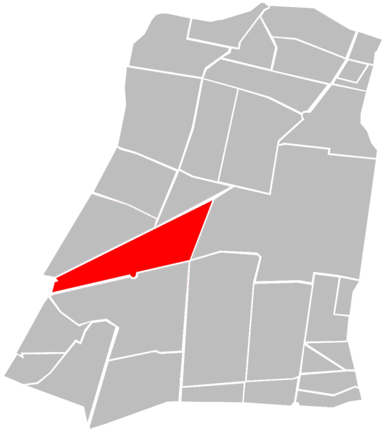 Map of Delegación Cuauhtémoc in Mexico City, with Colonia Juárez highlighted in red